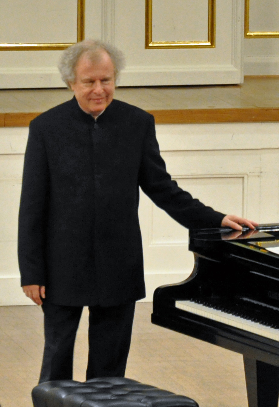 András Schiff, after a concert at the Salzburger Pfingstfestspiele 2013